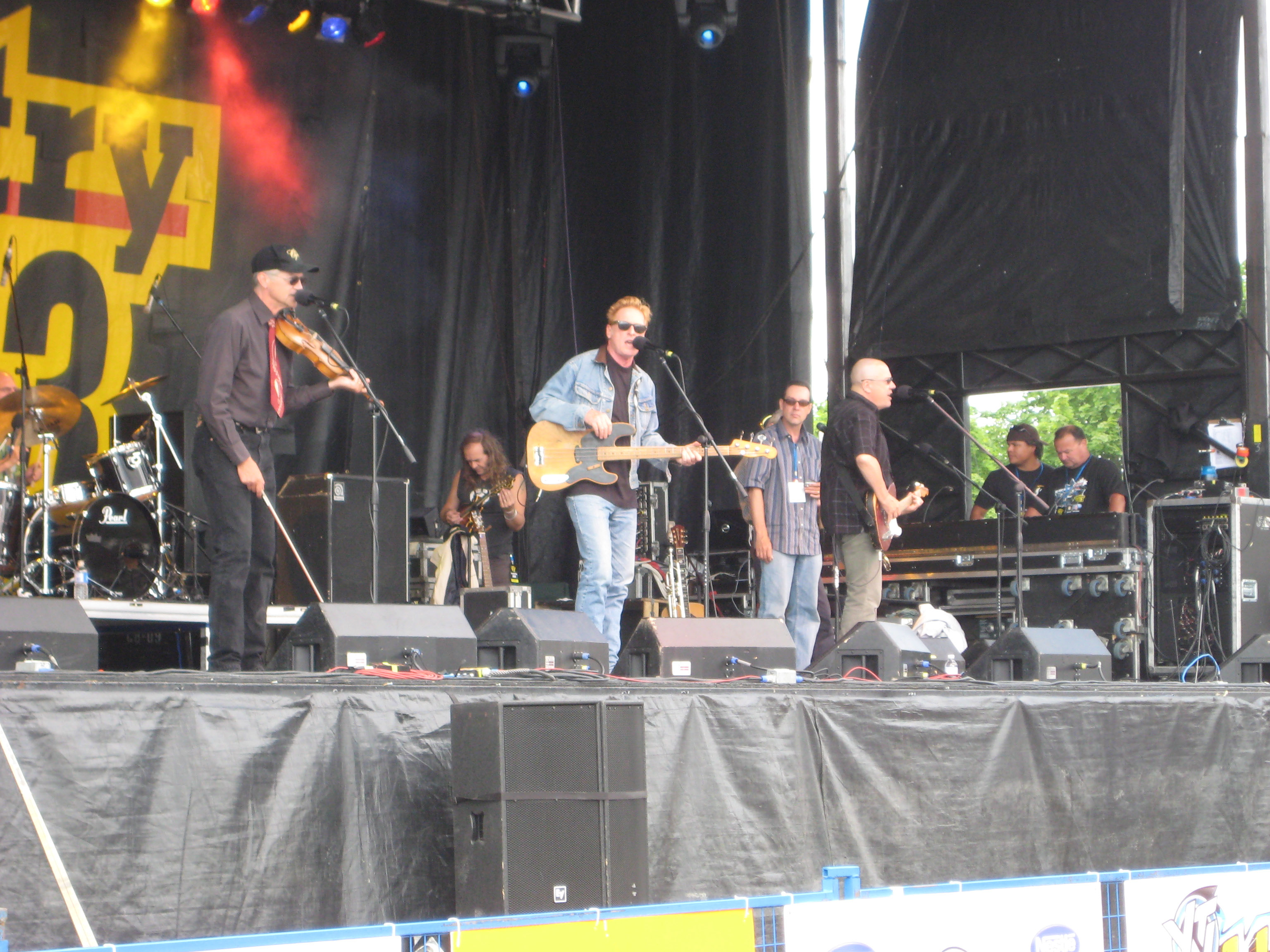 Canadian country music band Prairie Oyster in concert.